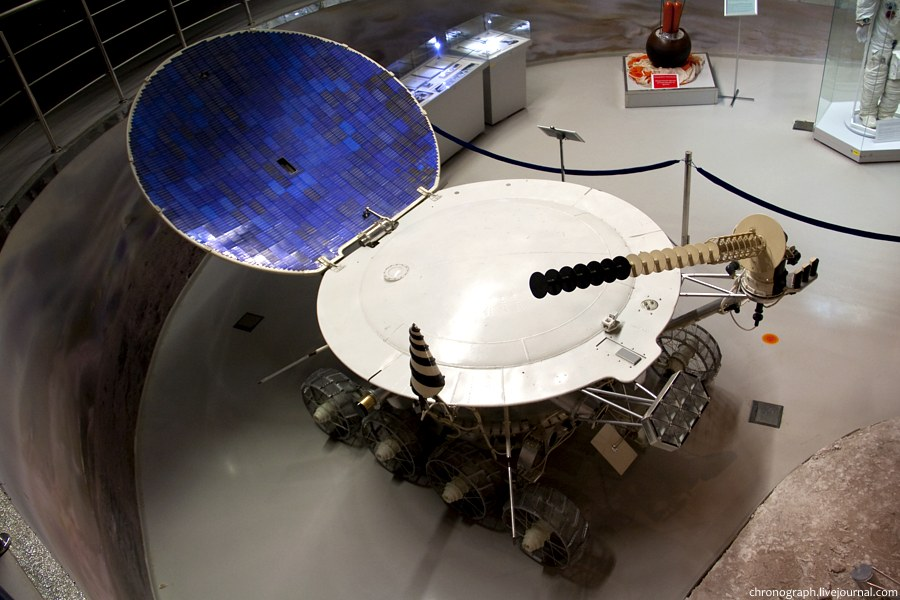 Soviet Lunokhod moonrover